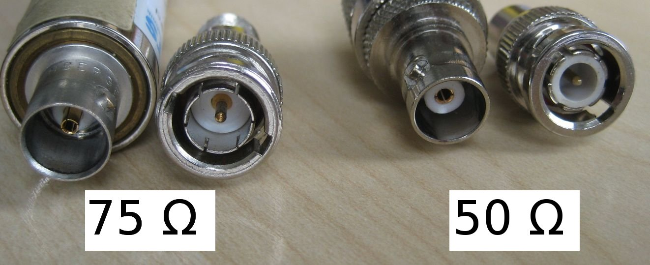 BNC connectors with impedances of 75 Ω (left) and 50 Ω (right)